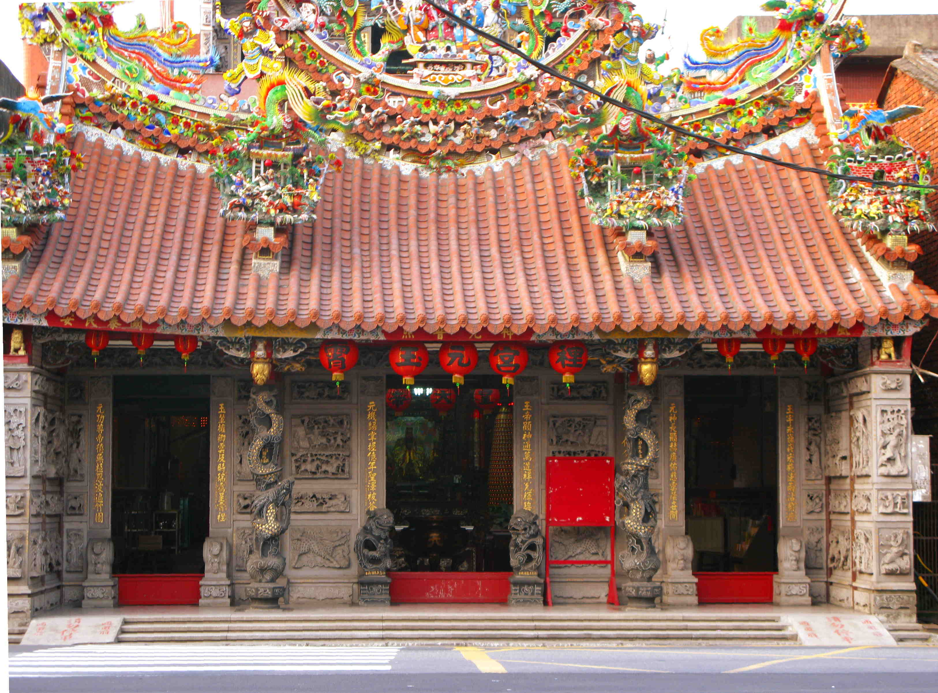 Bade Xiaoli Yuyuan gong,Taiwan.